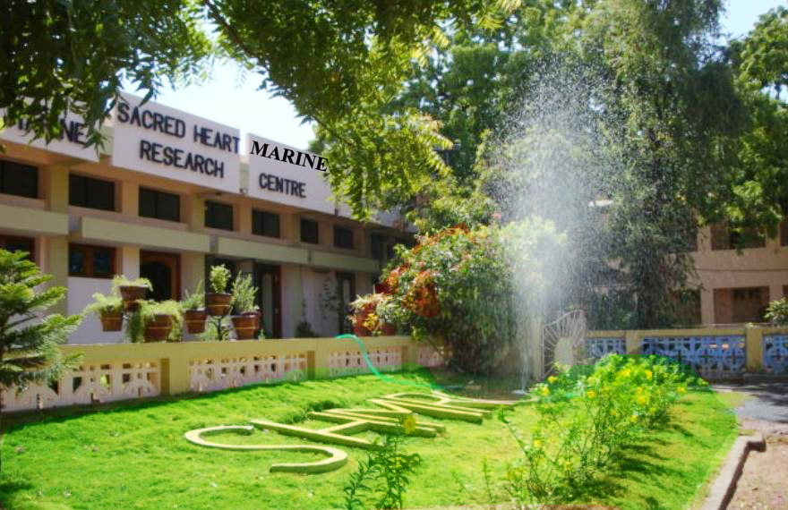 Sacred Heart Marine Centre